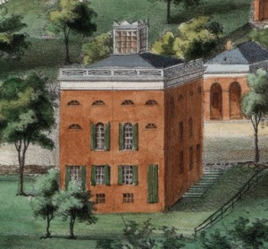 Detail of the Anatomical Theatre from View of the University … by E. Sachse & Co., 1856. A cupola was not part of Jefferson’s design. It was probably added after the 1837 resolution to raise the roof. This image clearly shows the cupola was present in 1856. Special Collections, University of Virginia Library, Charlottesville, Va.